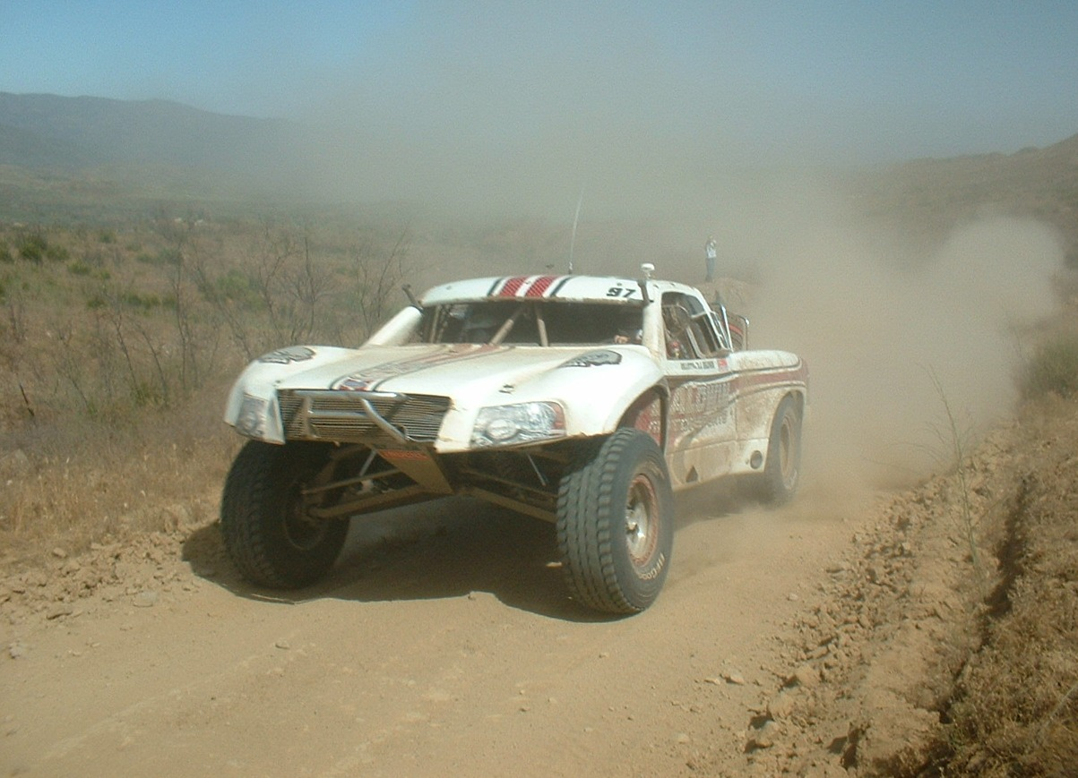 Trophy truck SCORE